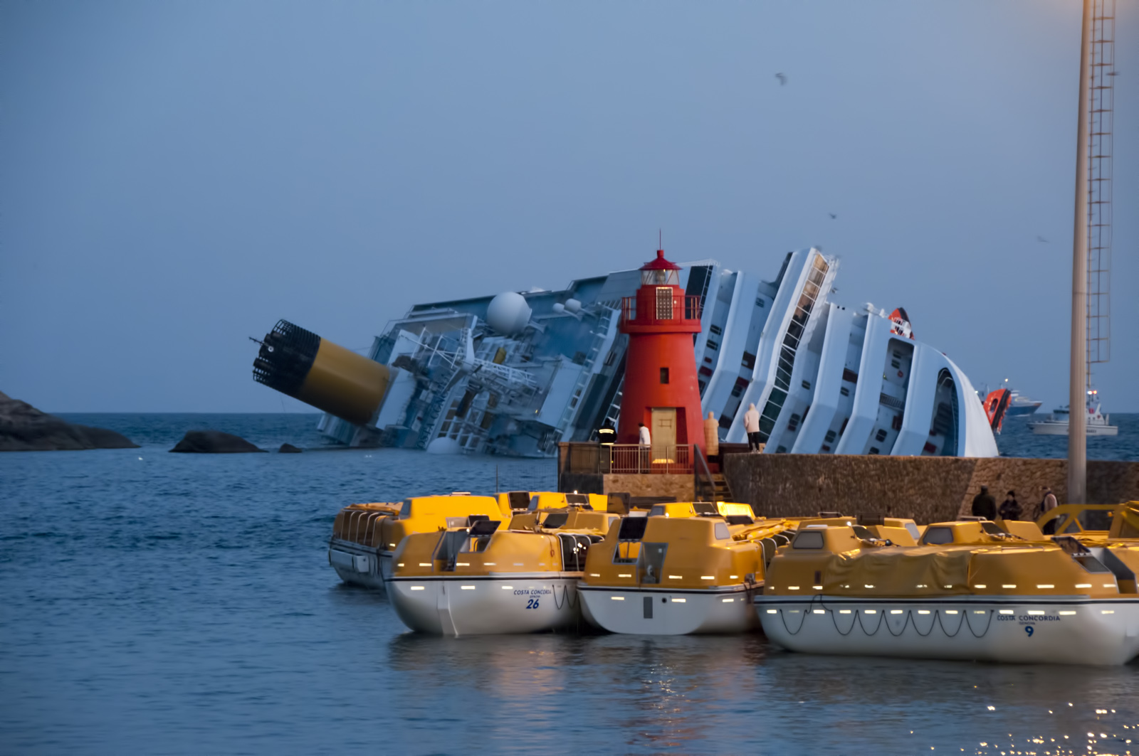 Collision of Costa Concordia Le scialuppe di salvataggio ormeggiate in porto dopo il suo utilizzo Information about Costa Concordia may be found at IMO 9320544. A ship can change name and flag state through time, but the IMO number remains the same through the hull's entire lifetime. As a result, it can be useful to identify a ship by using the IMO number.